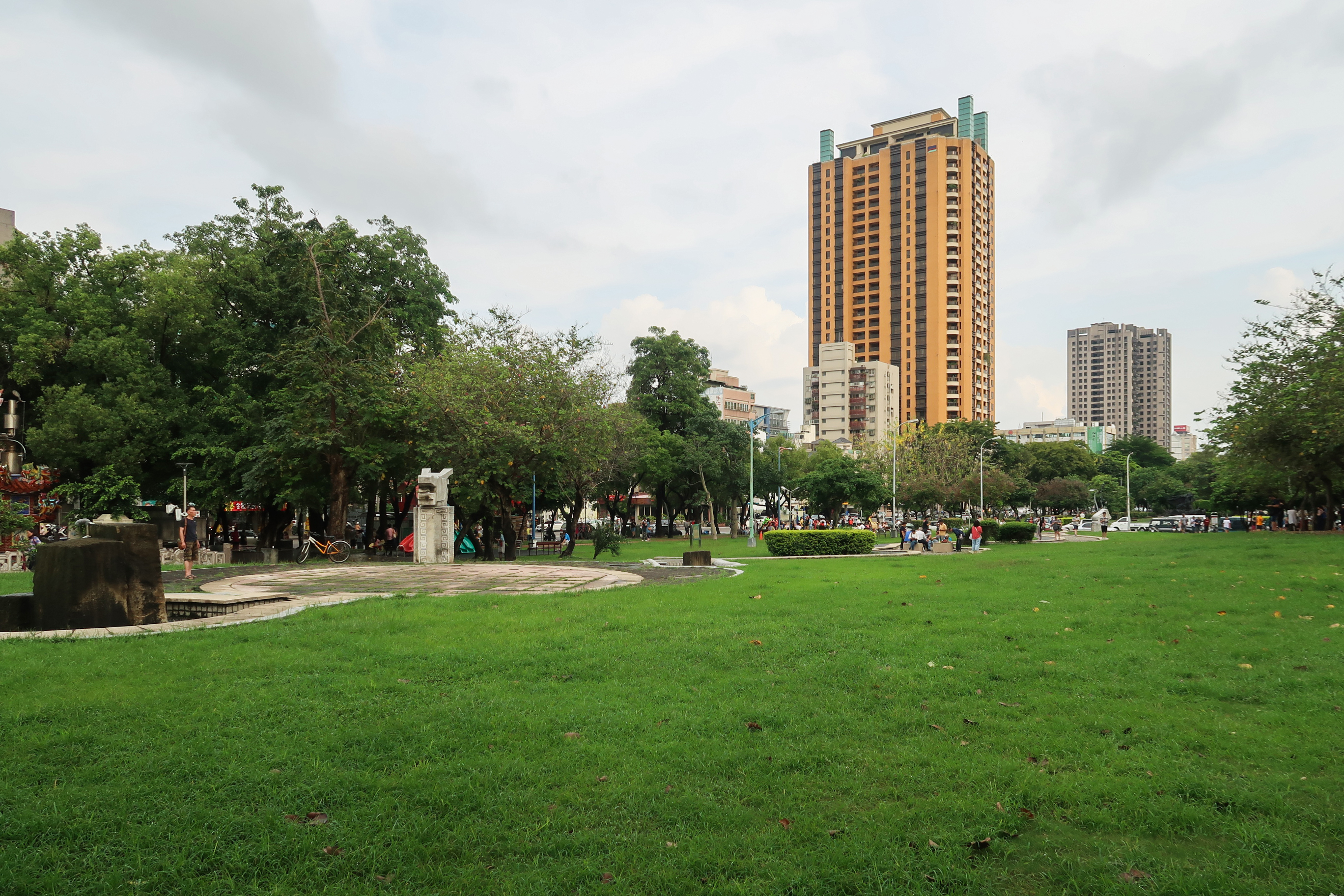 Calligraphy Greenway open space, Taichung